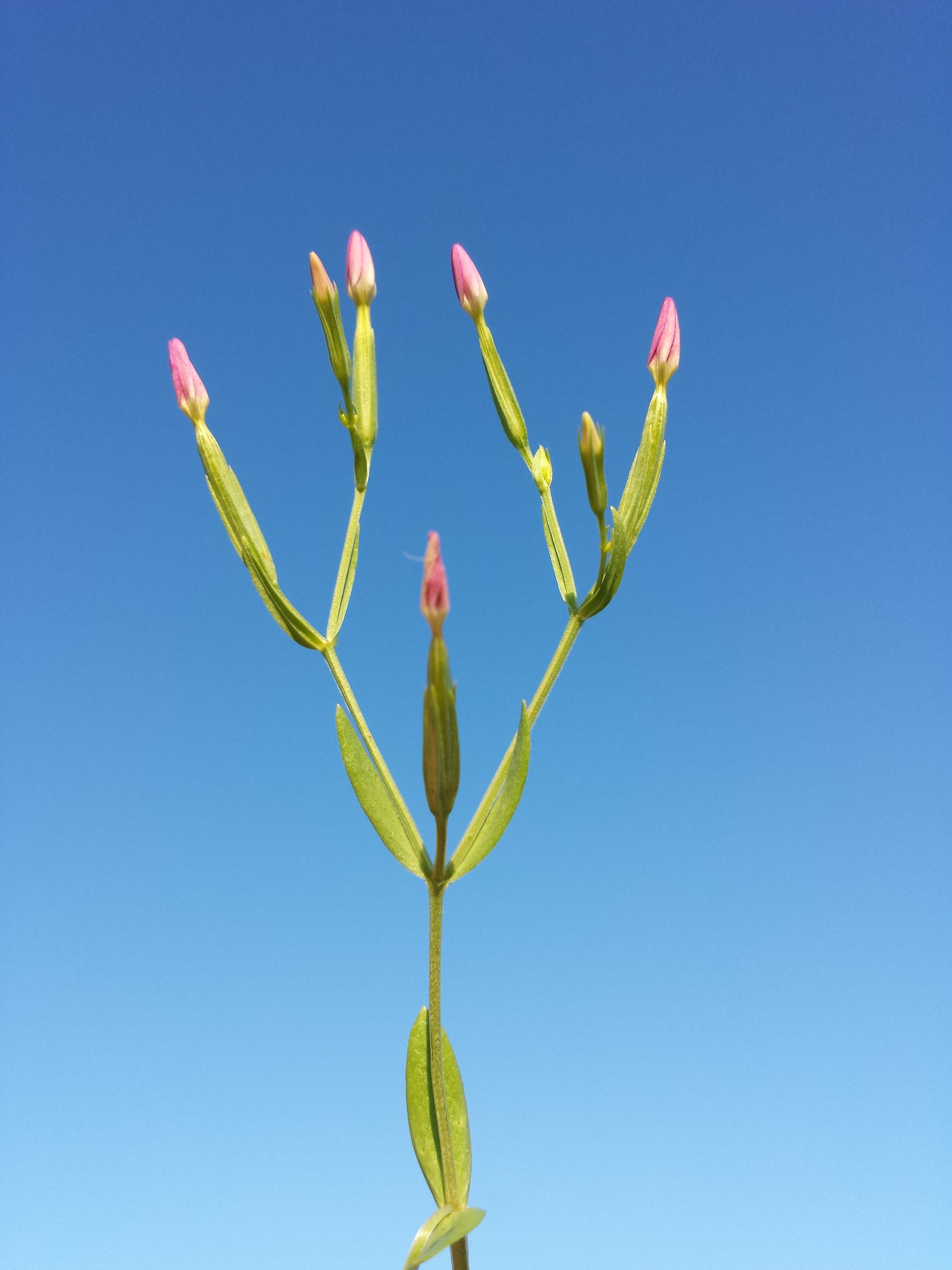 Inflorescence Taxonym: Centaurium pulchellum ss Fischer et al. EfÖLS 2008 ISBN 978-3-85474-187-9 Location: Neue Donau, Vienna-Floridsdorf - ca. 160 m a.s.l. Habitat: dry meadows